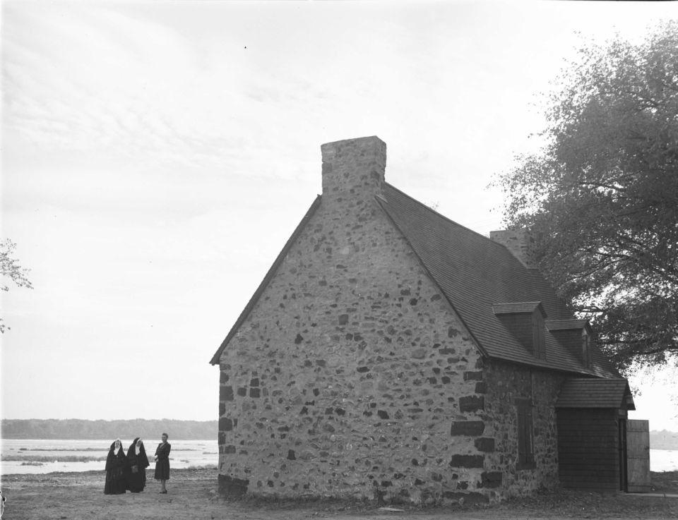 Two nuns of the Congregation of Notre Dame and a secular stand near the Saint-Dizier house located between the shore of the St. Lawrence boulevard LaSalle in Verdun. This stone house French-inspired field was built for the nuns of the Congregation of Notre Dame in 1710.